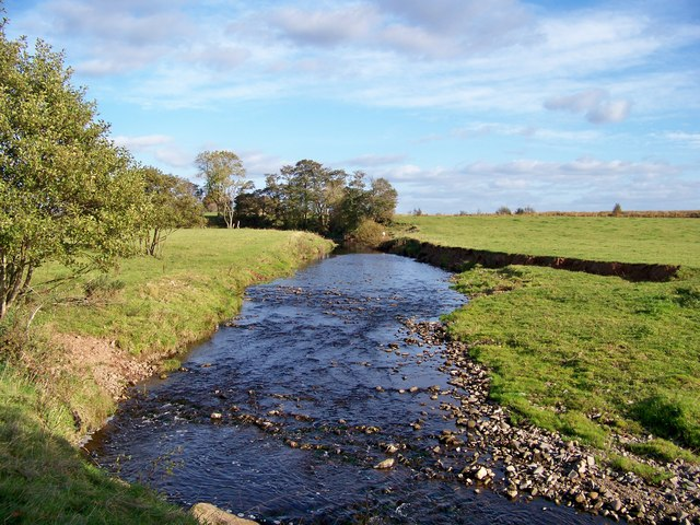 River Sark: On The Border The boundary between Scotland (left) and England (right) runs mid-channel at this point.